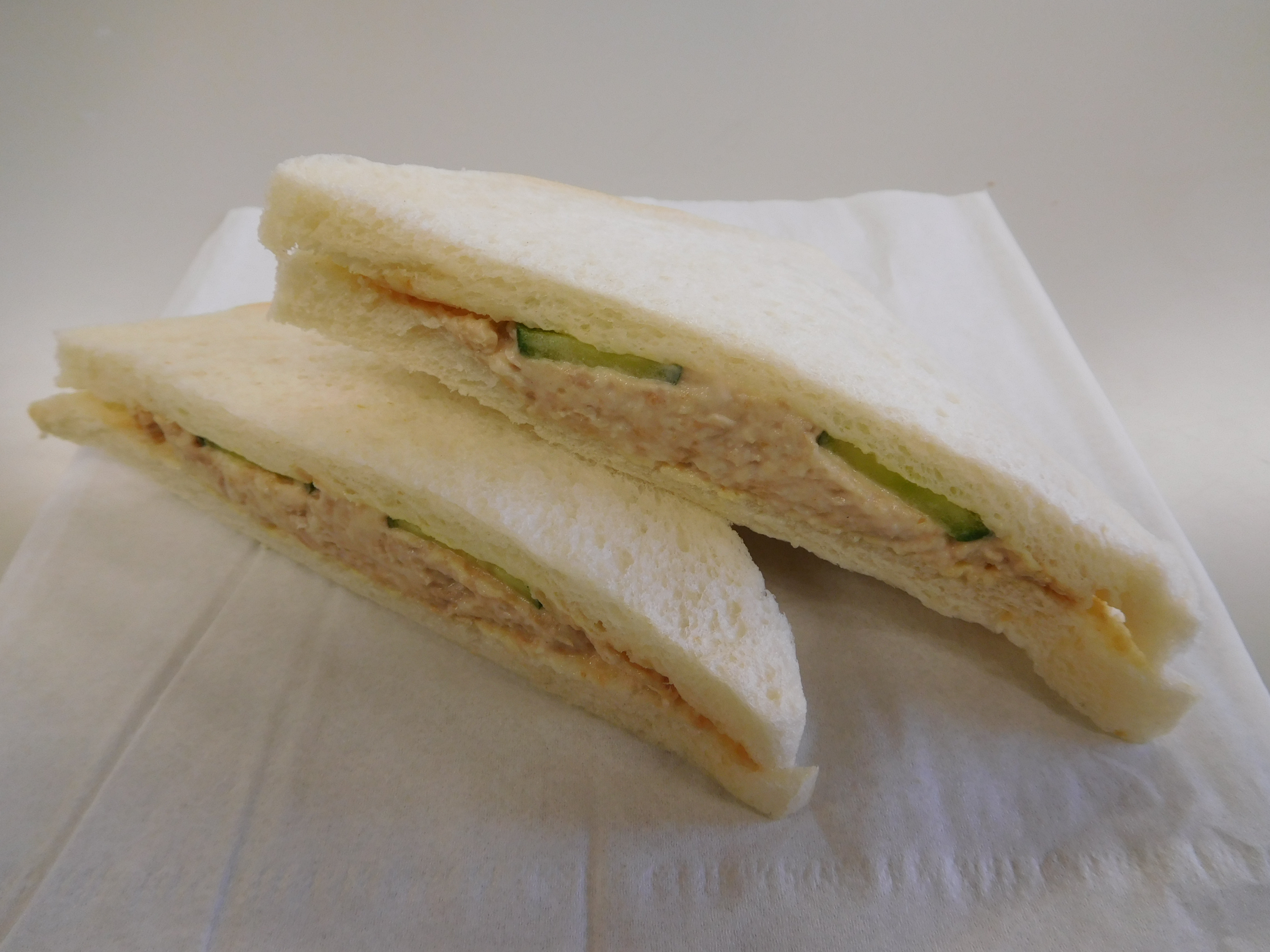 These are tuna sandwiches which was made in Japan.